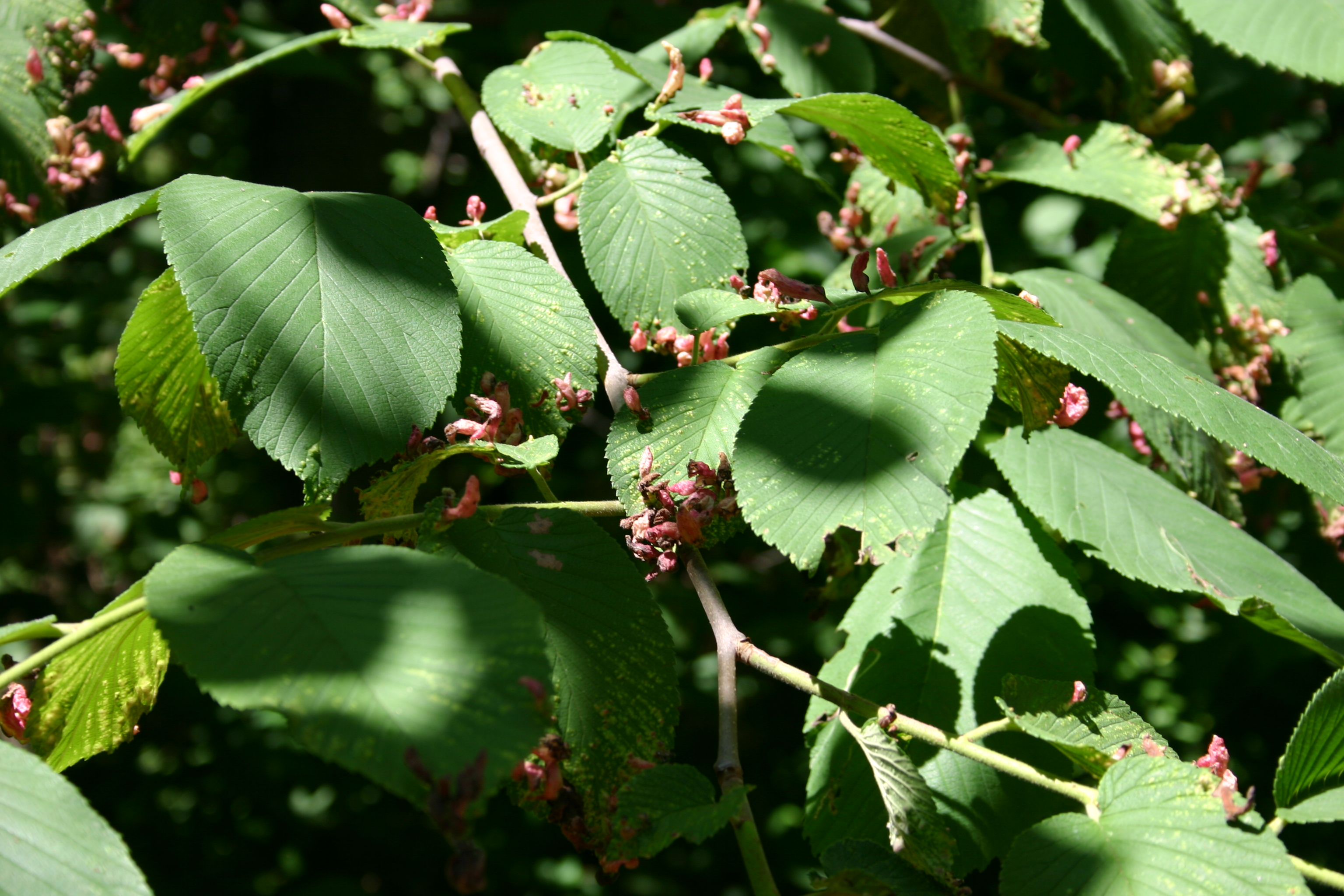 Leaf galls on Prunus sp.